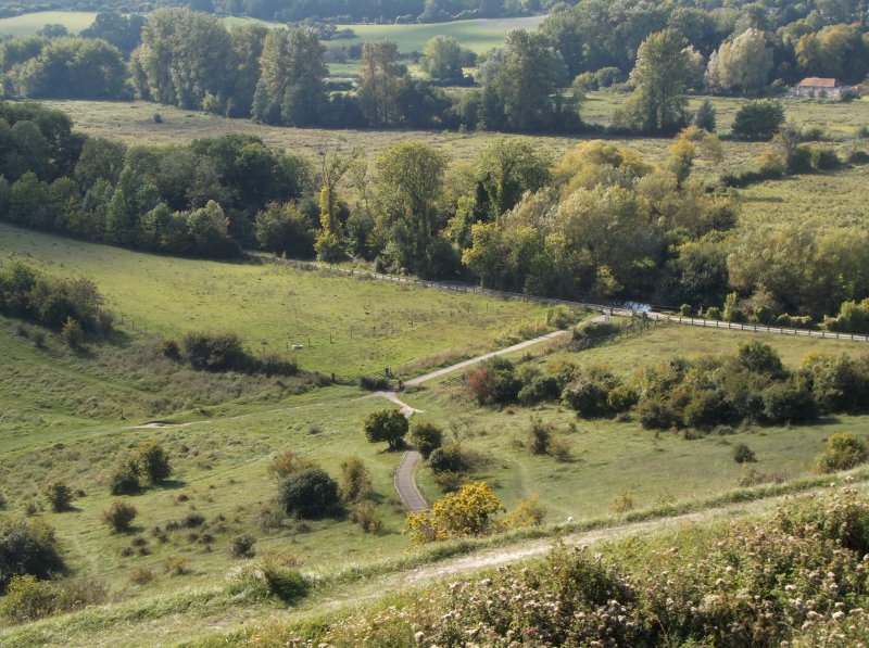 Looking SW from the top of St. Catherine's Hill